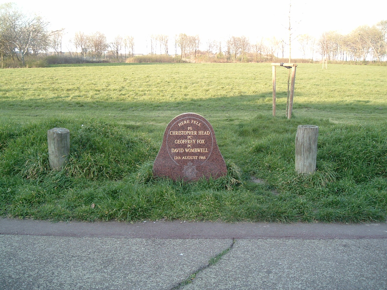 This is a picture of the memorial on Braybrook Street, London W12, to three policemen shot and killed on this spot on 12 August 1966. It is intended for use on Wikipedia:Massacre of Braybrook Street